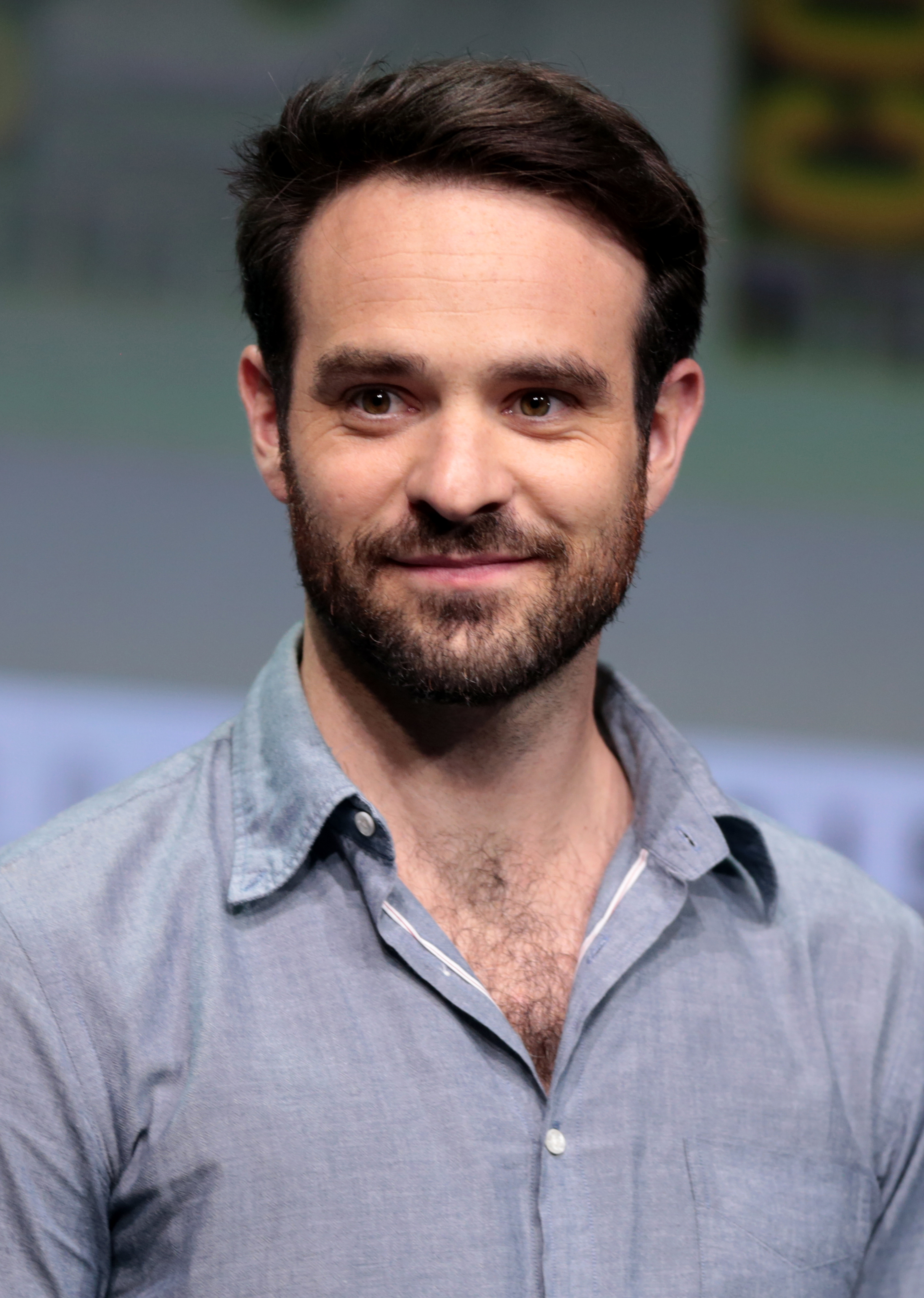 Charlie Cox speaking at the 2017 San Diego Comic-Con International in San Diego, California.